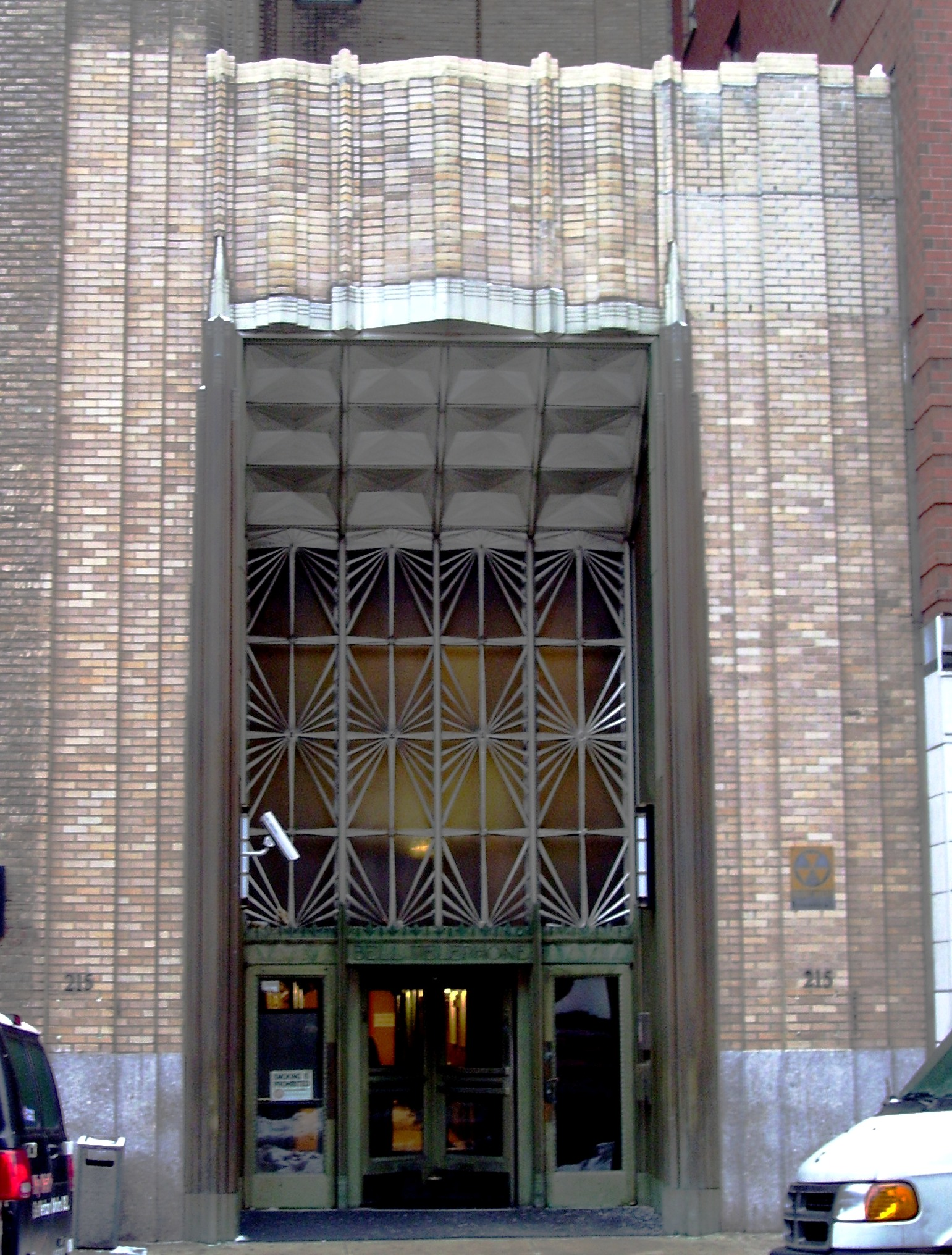 The entrance to the Verizon telephone building at 215 West 17th Street, between Seventh and Eighth Avenue, in the Chelsea neighborhood of Manhattan, New York City.